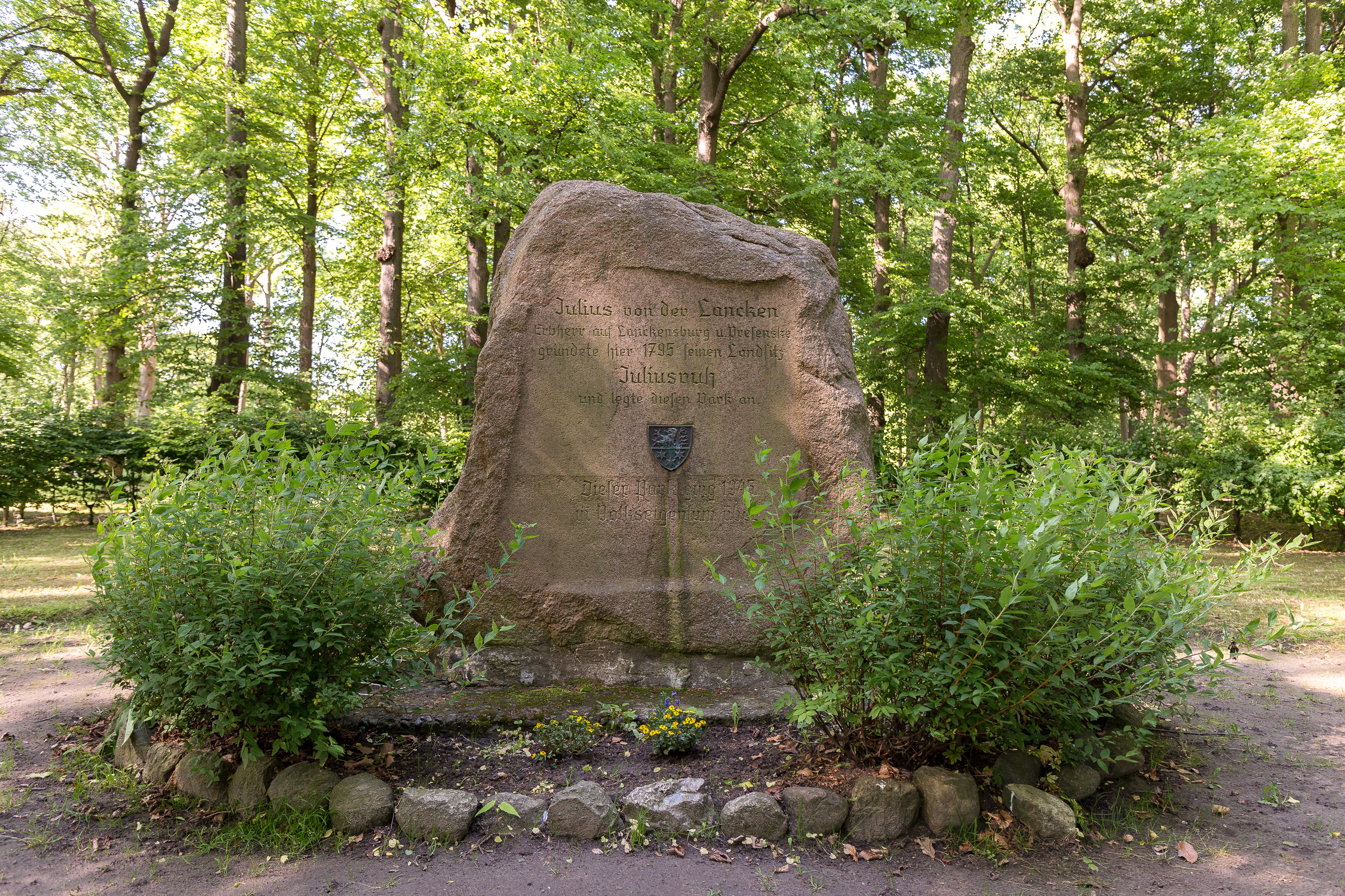 Memorial stone in the park of Juliusruh, Rügen.